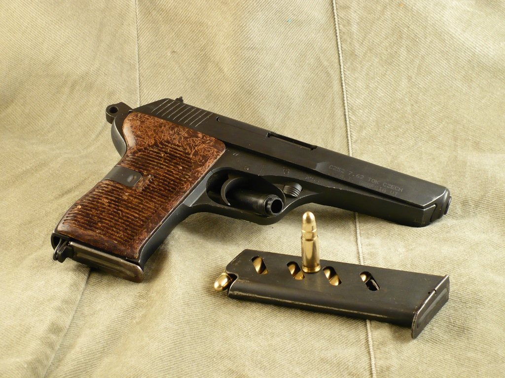 CZ52 7.62x25 TOK CZECH